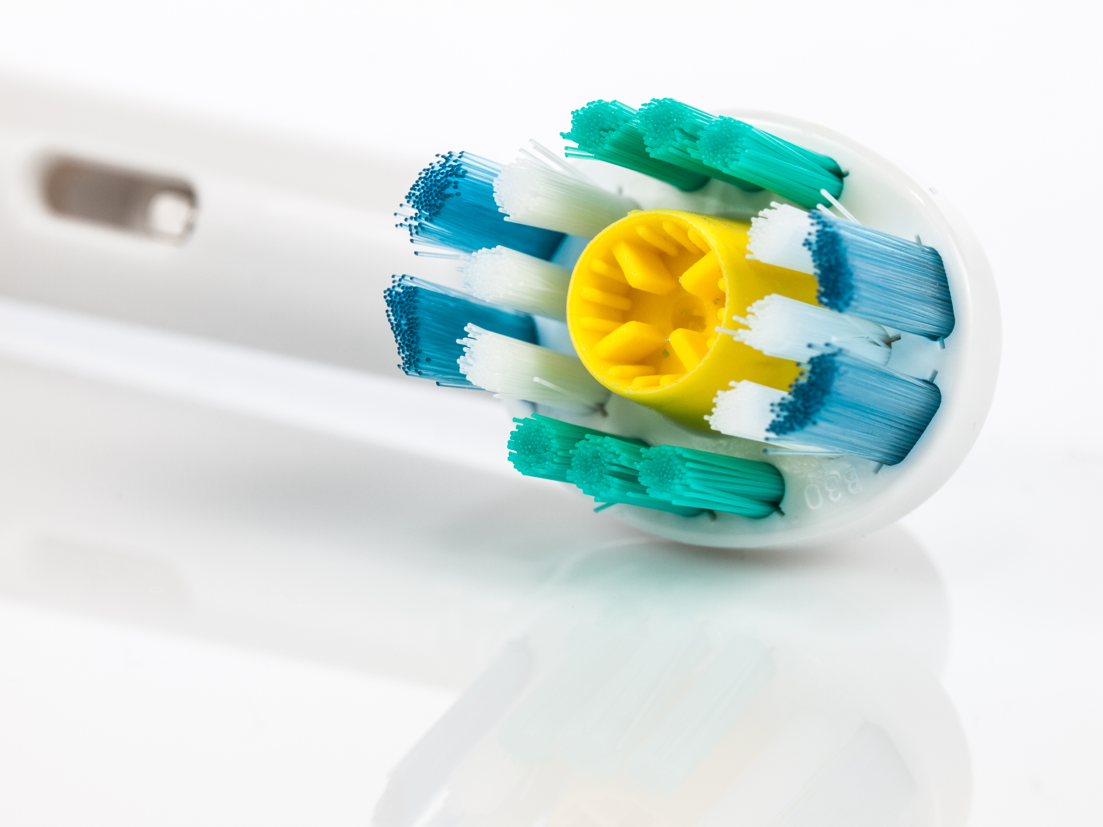 Electric toothbrush head PERMISSION TO USE: you are welcome to use this photo free of charge for any purpose including commercial. I am not concerned with how attribution is provided - a link to my flickr page or my name is fine. If the used in a context where attribution is impractical, that's fine too. I want my photography to be shared widely. I like hearing about where my photos have been used so please send me links, screenshots or photos where possible.